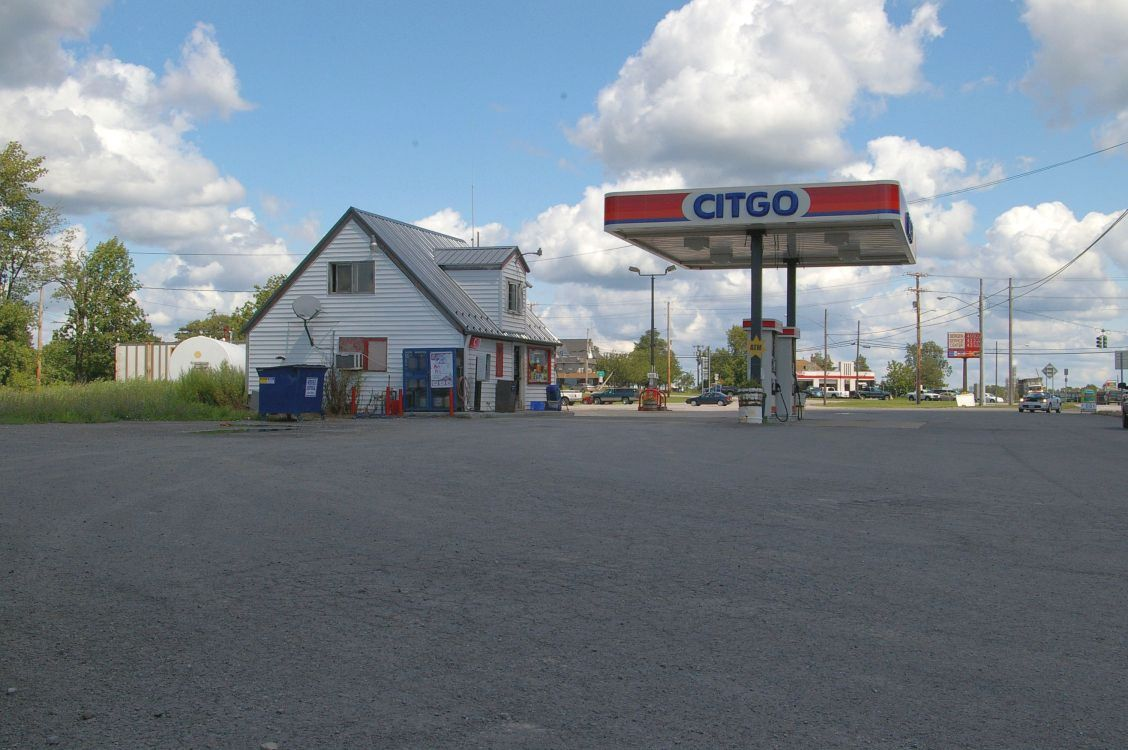 Citgo-Petrol Station in Bergen/NY